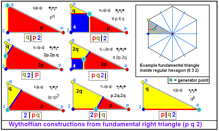 For Wythoff construction